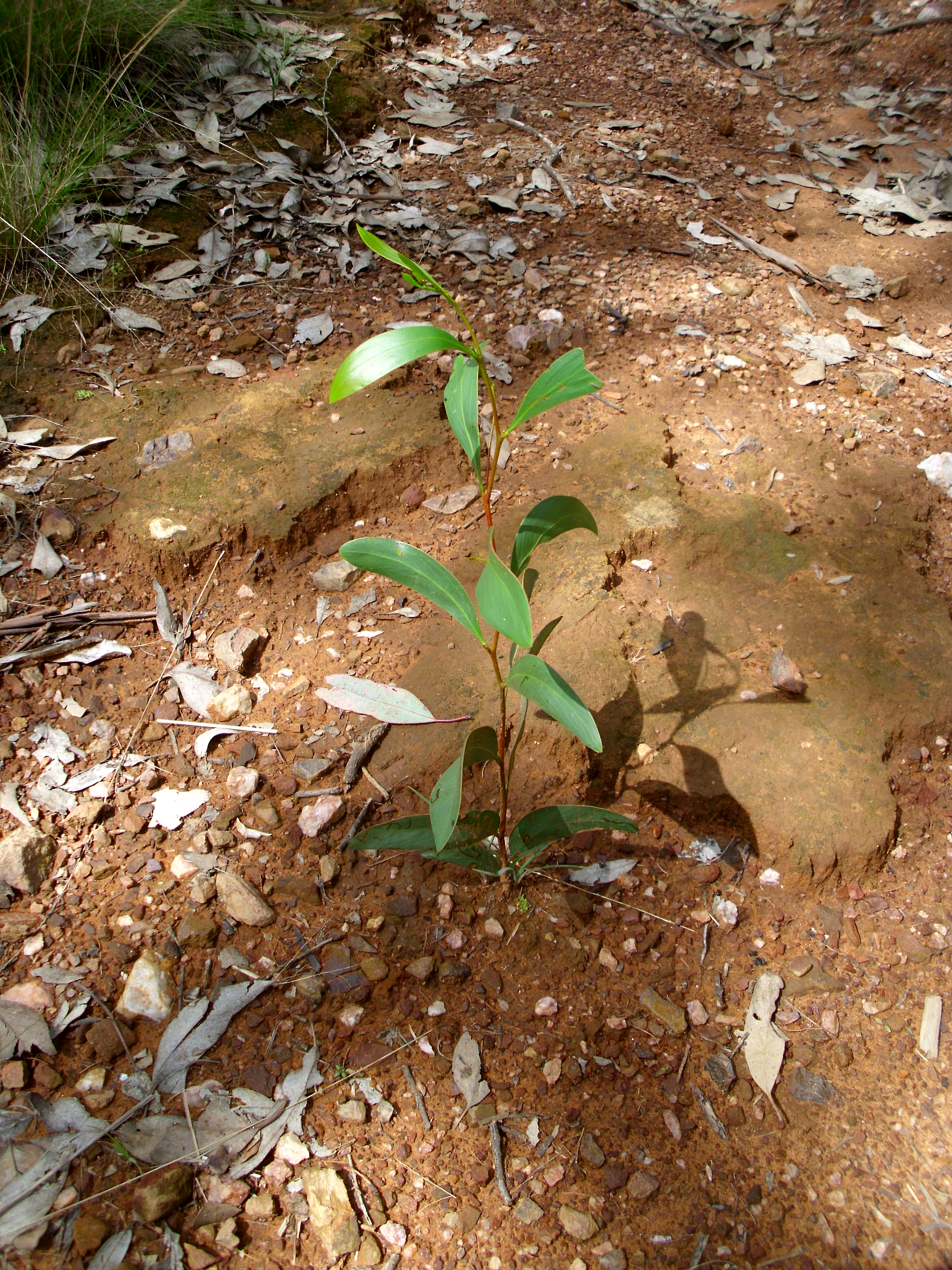 Acacia pycnantha seedling growing in the Willans Hill Reserve.